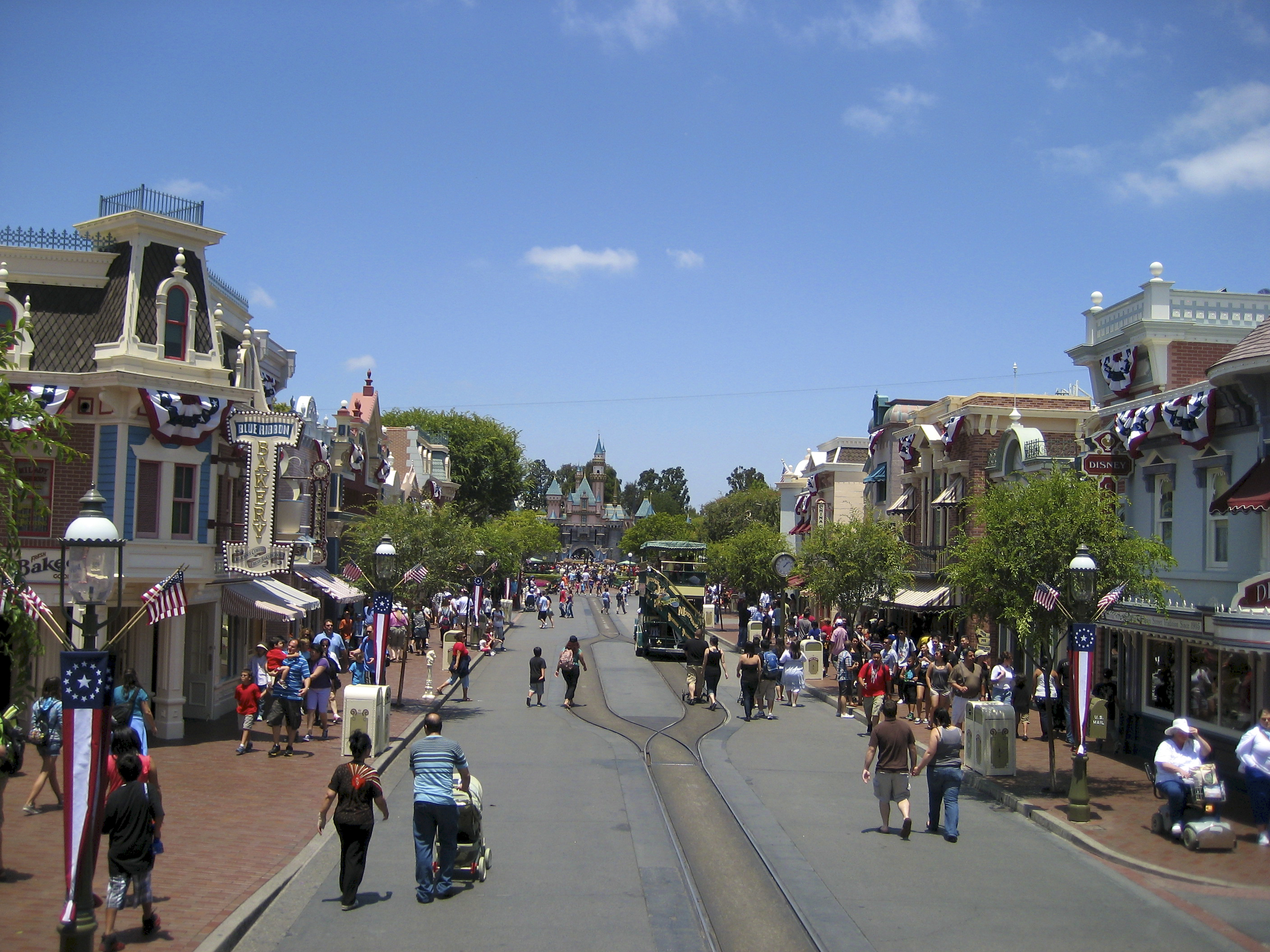 Disneyland's Main Street, U.S.A. with July 4th decorations.